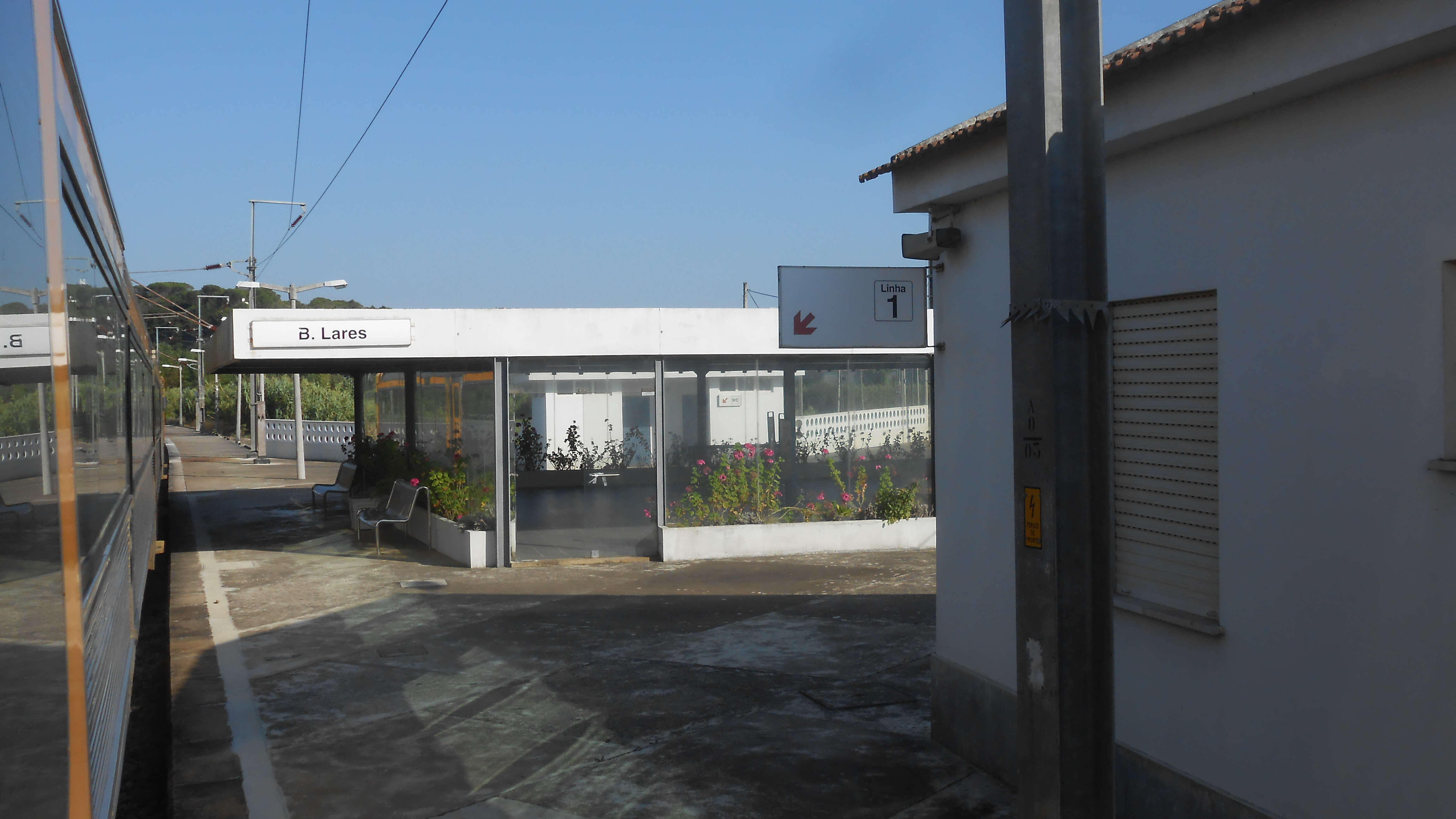 The railway stop of B-Lares ("Bifurcaçao de Lares"), where the Linha do Oeste joins the Ramal de Alfarelos.